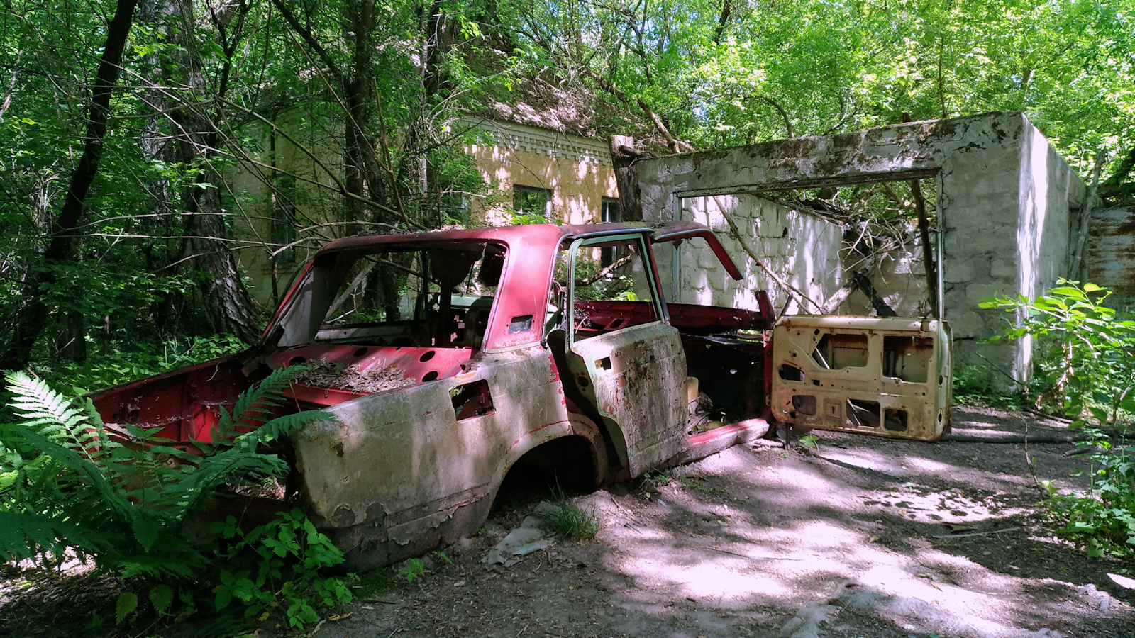 Zalissya in June 2019